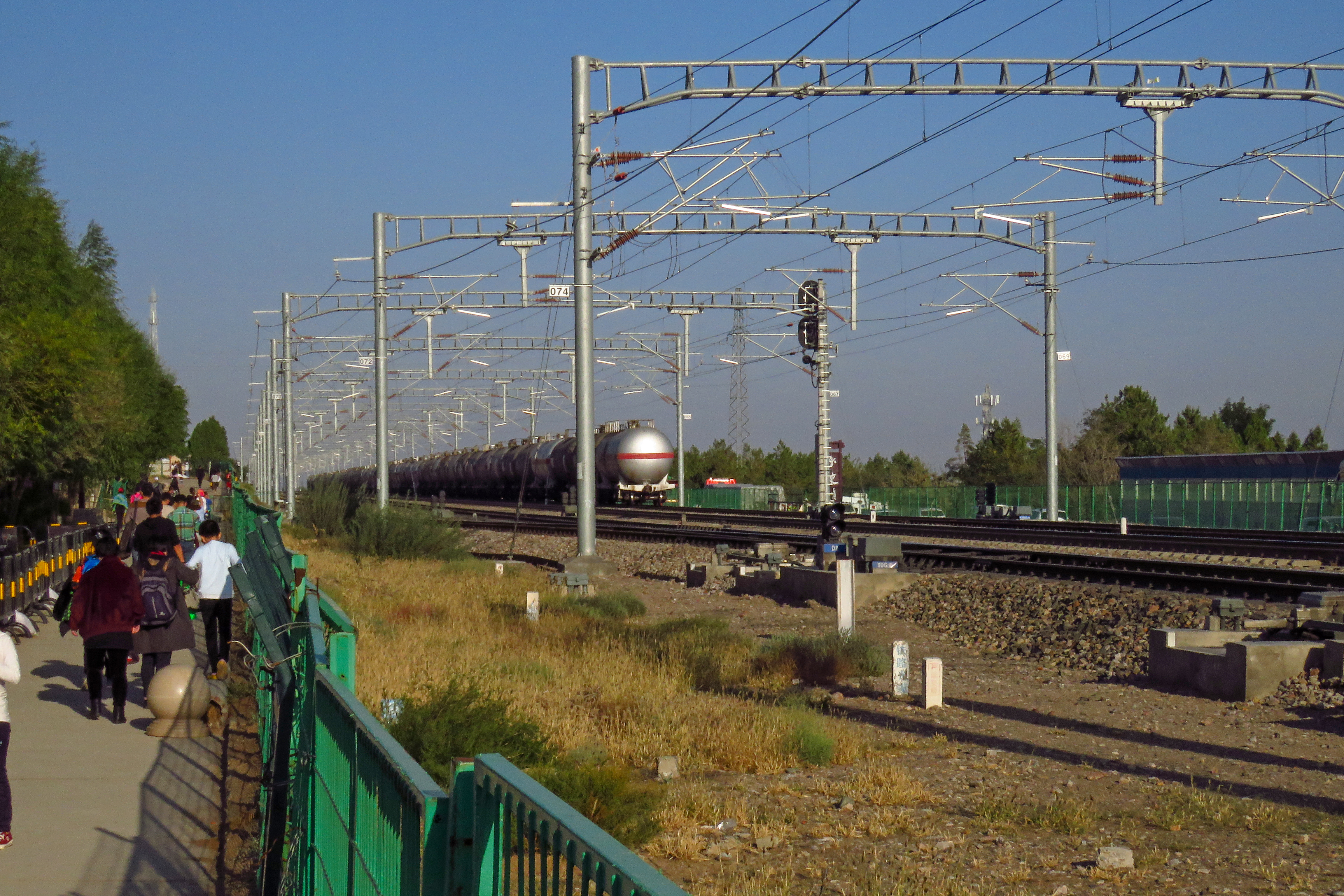 A freight train is occupying the southbound platform.